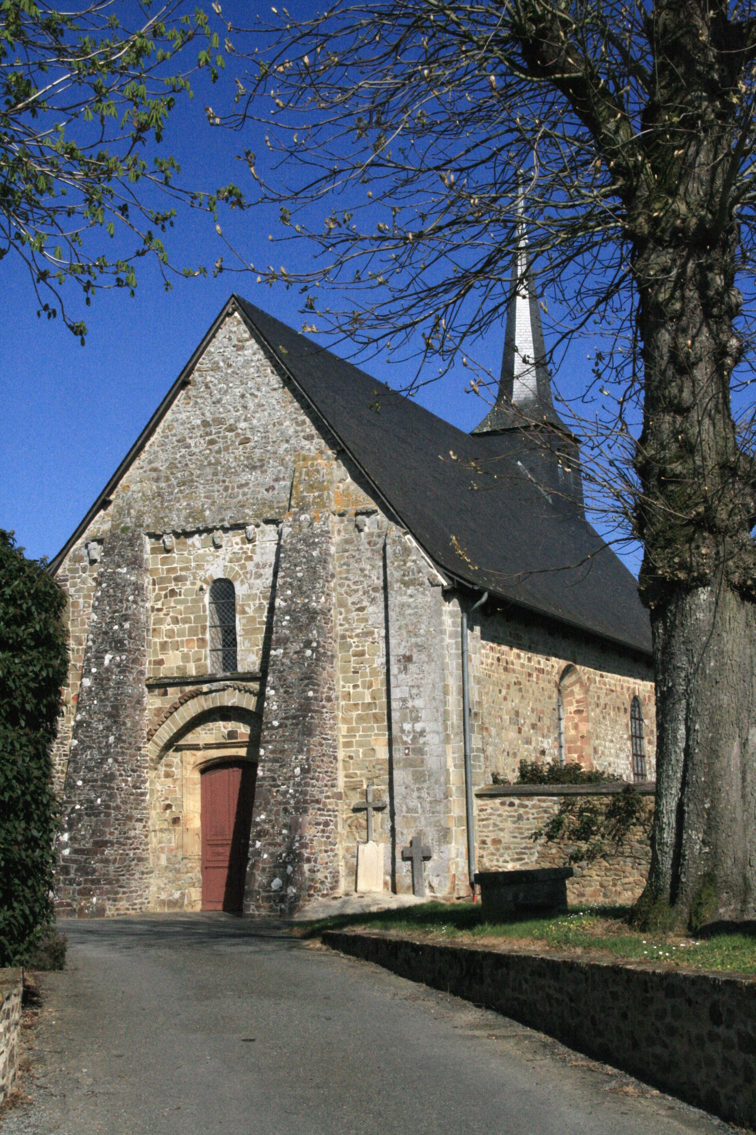 Church Notre-Dame de l'Assomption (Assumption of Mary), village of Arbrissel, department of Ille-et-Vilaine, Brittany, France. Roman church, 11th and 12th centuries.